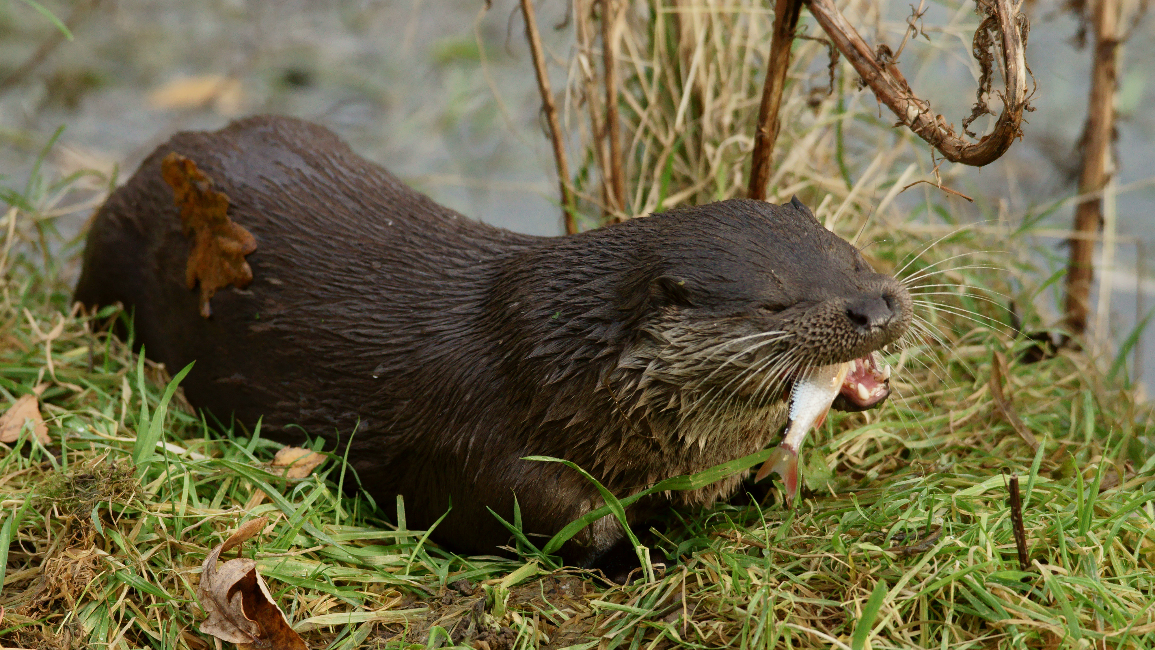 Seen at the British Wildlife Centre. 'Elwood' shows his skills at catching a fish, which had found its way into his pond.